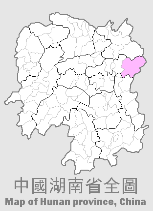 Location of Liuyang city, Hunan, China(湖南省浏阳市位置图，中英文版本)